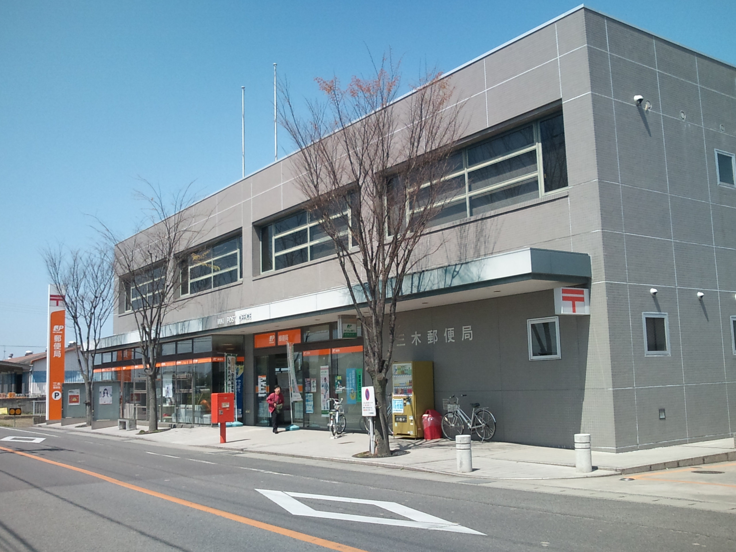 Miki Post Office (Kagawa Pref.)